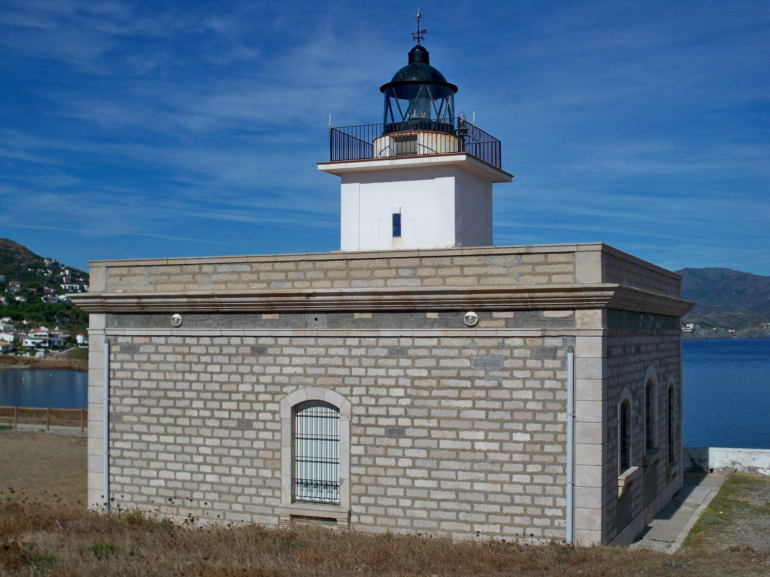 Punta s'Arnella lighthouse